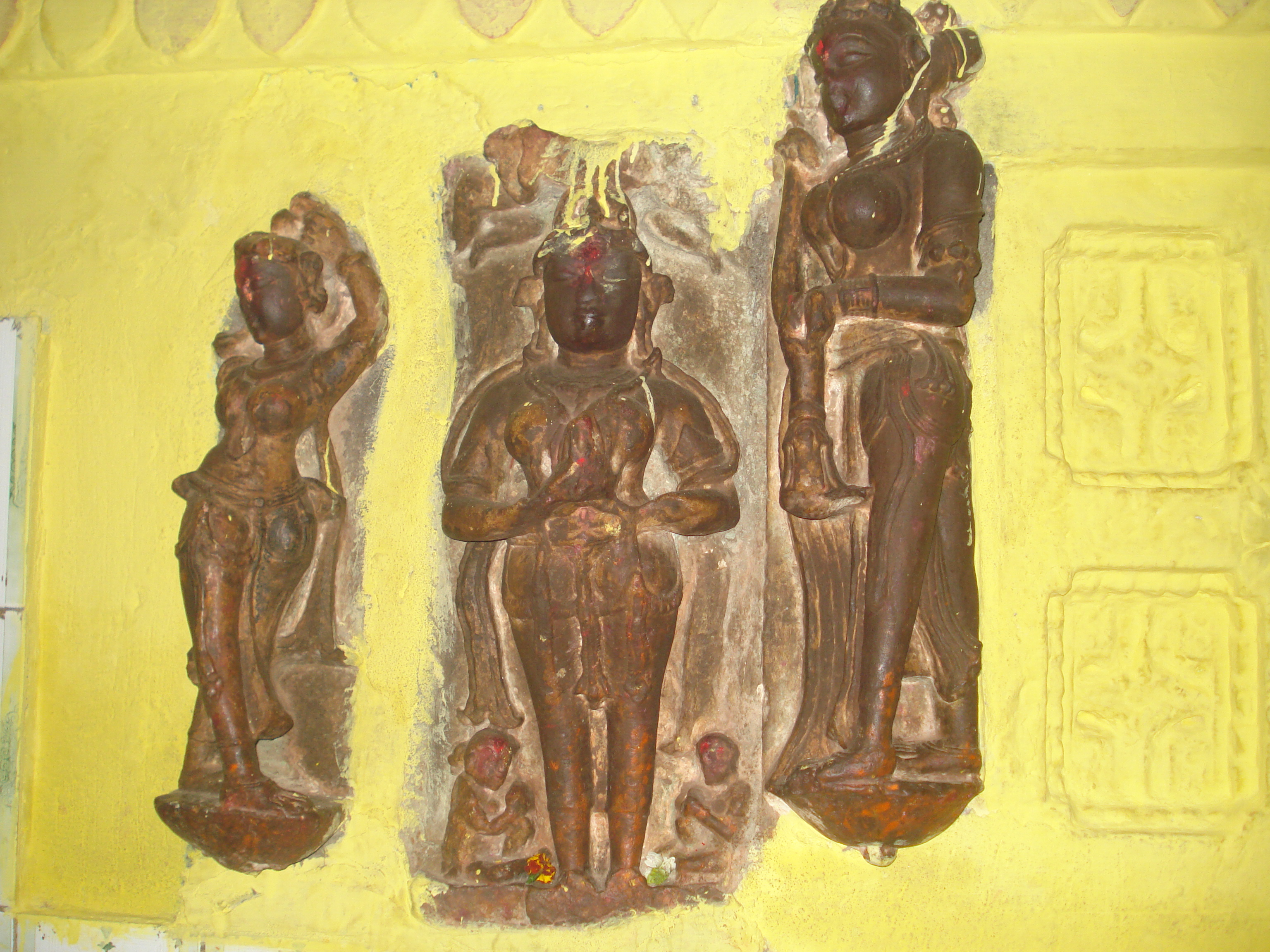 There are other devi's idol fixed on main sanctum wall.